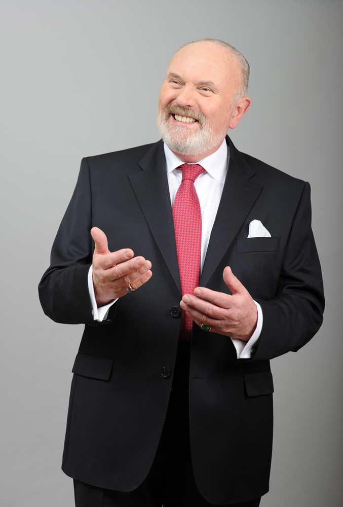 A portrait of David Norris